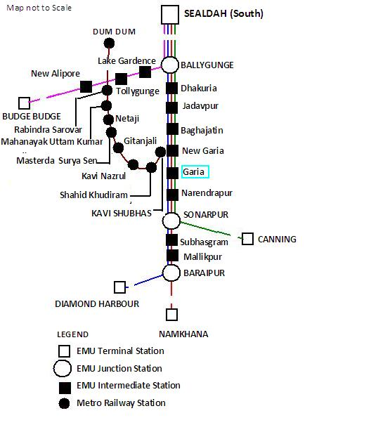 Location of Garia Railway station in rail route